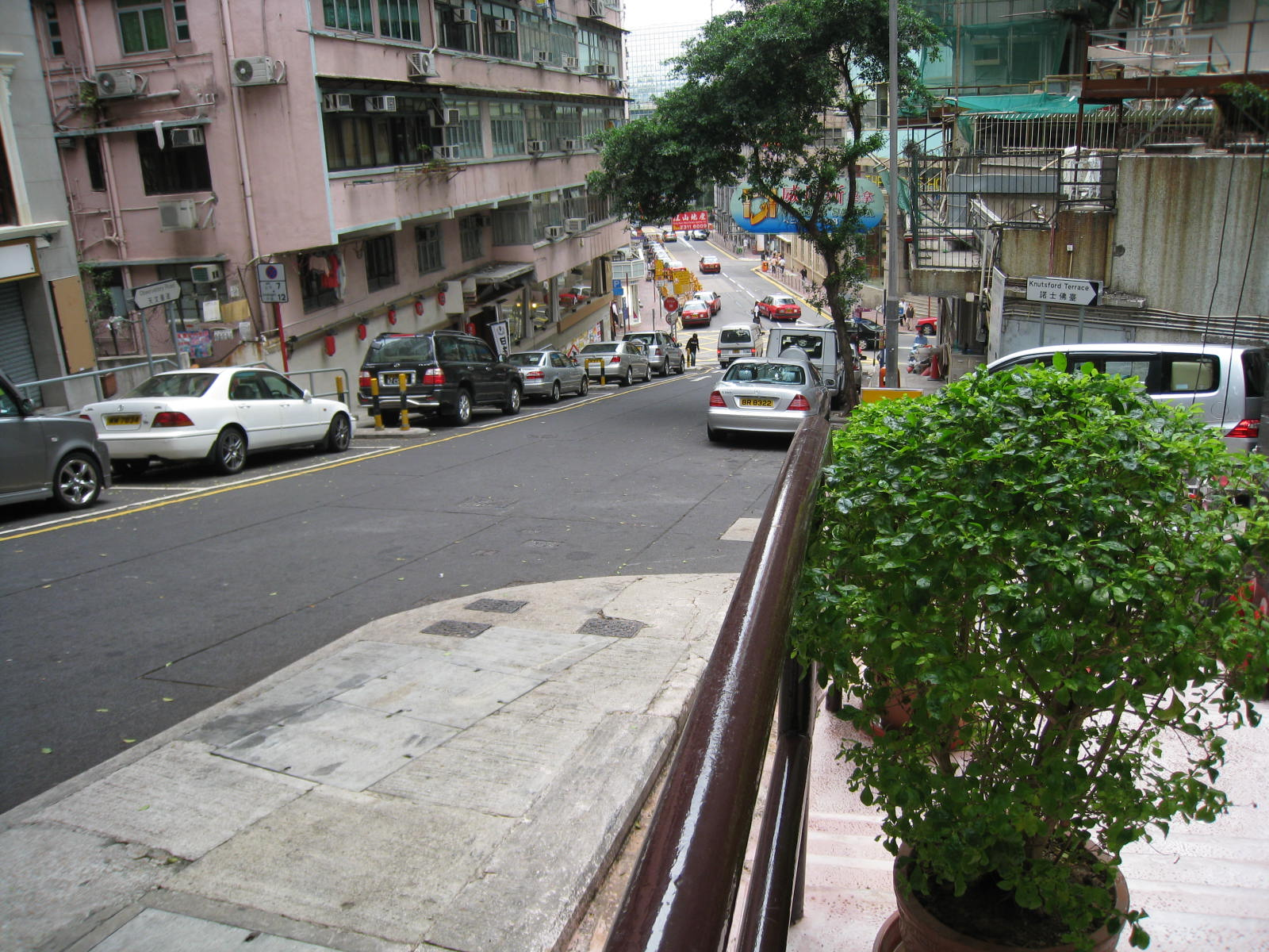 Observatory Road, Tsim Sha Tsui, Hong Kong 中文（香港）: 香港尖沙咀天文台道